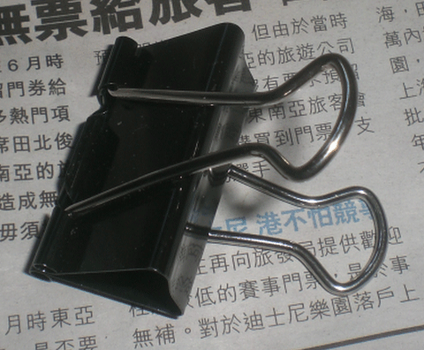 文具